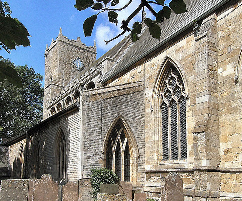 A view of St Peter's Church in Navenby, Lincolnshire, England.